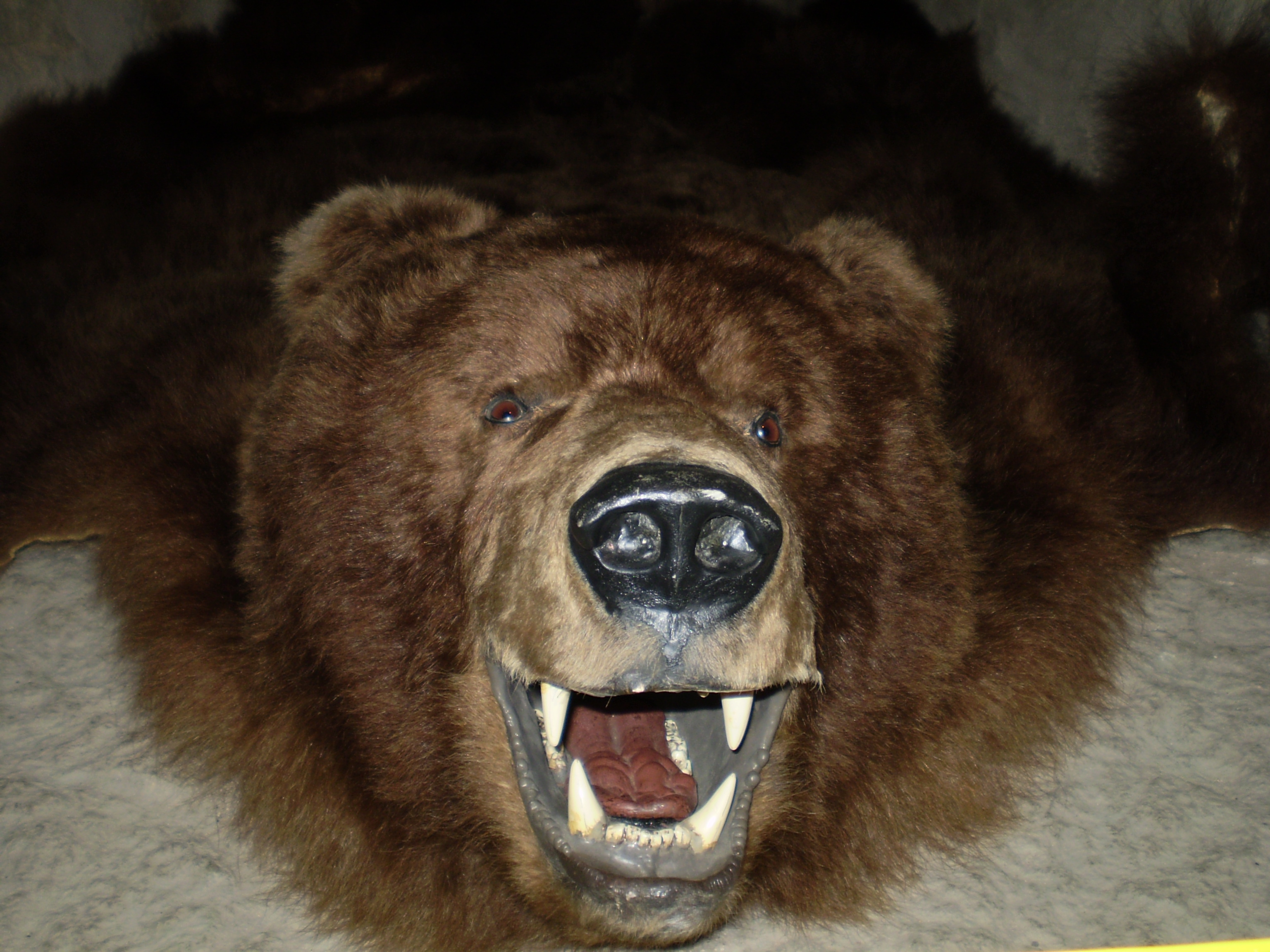 Bear fur in Narva Castle Museum, Estonia.